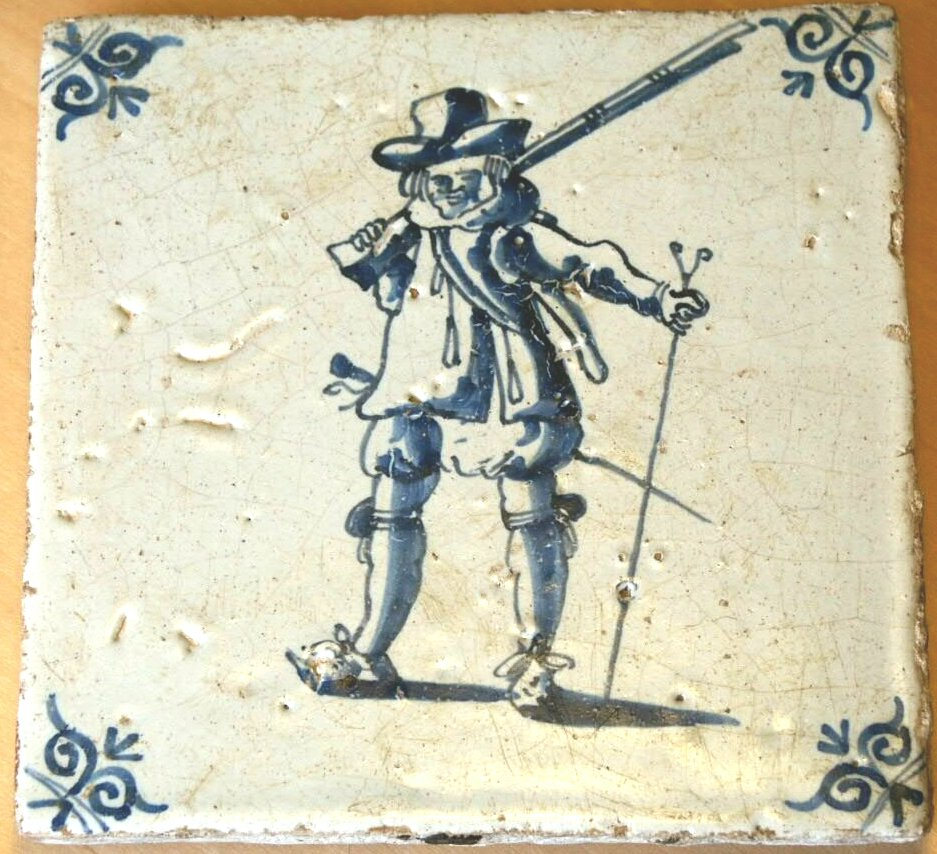 Tile illustrated with a man carrying a Arquebus.